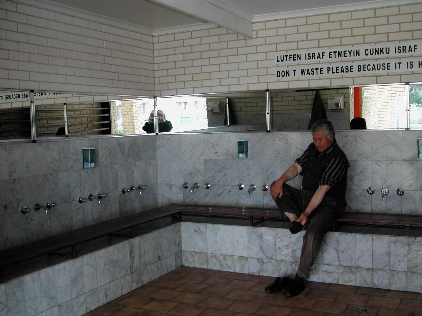 Islam in Melbourne: Worshipper performing wudu' (ablutions) in preparation for prayer at the Broadmeadows mosque.